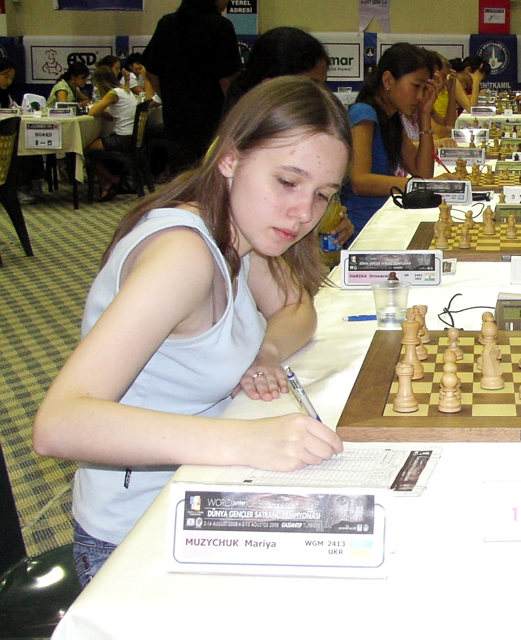 WGM Mariya Muzychuk Ukraine, World Junior Chess Championship, Gaziantep 2008